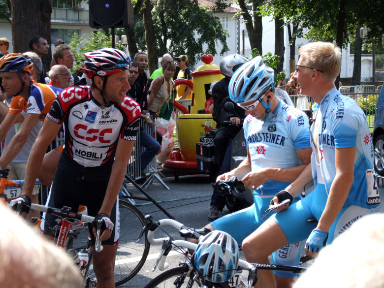 Taken by Stitchface in Tarbes.